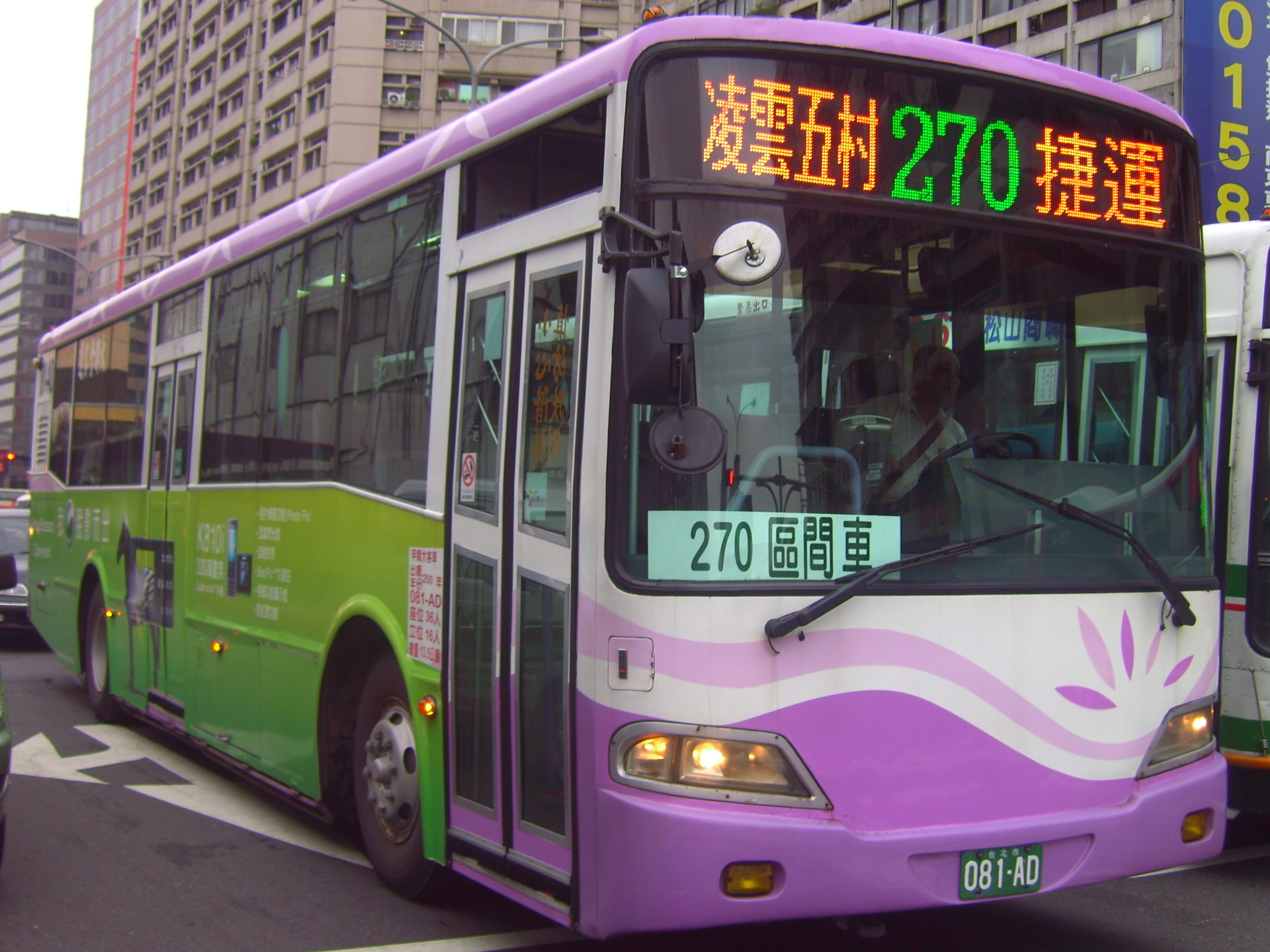 A special painted Isuzu LT134P bus is owned by Metropolitan Transport Corporation in Taiwan.